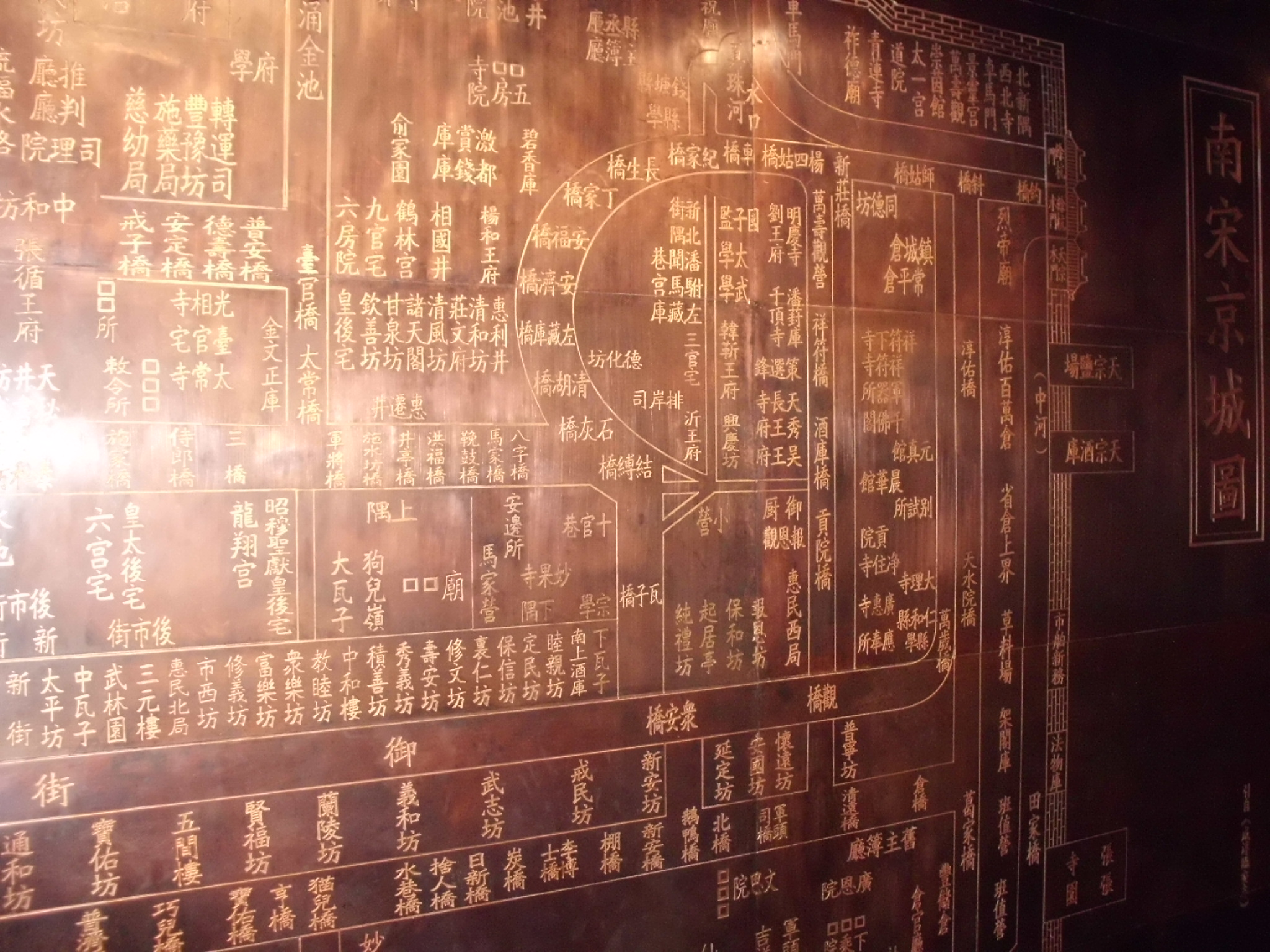 Hangzhou Urban Planning Exhibition Hall